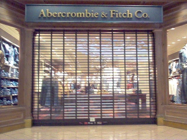 Author: User:Sam Weber Location: Altamonte Springs, FL, late 2004. The location was converted to the canoe store design in August 2005.